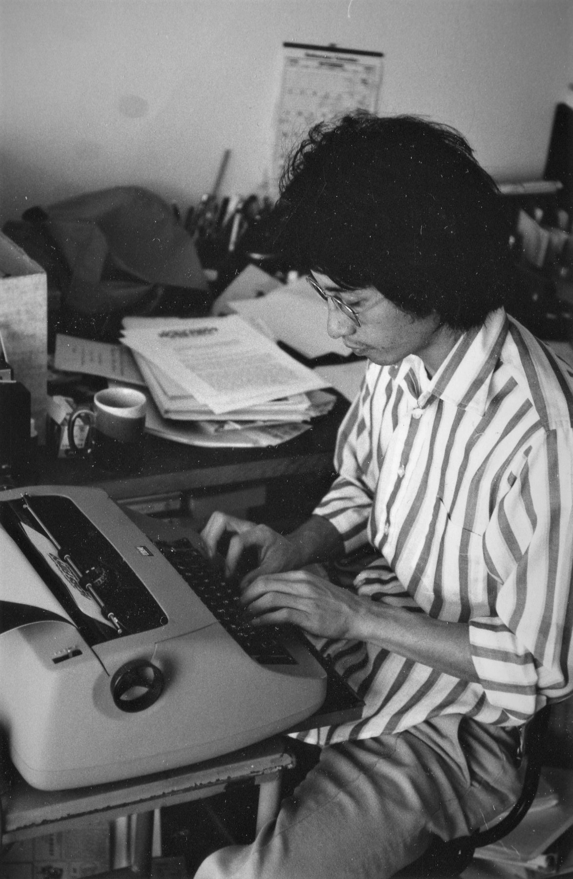 Shawn Wong in San Francisco, 1976